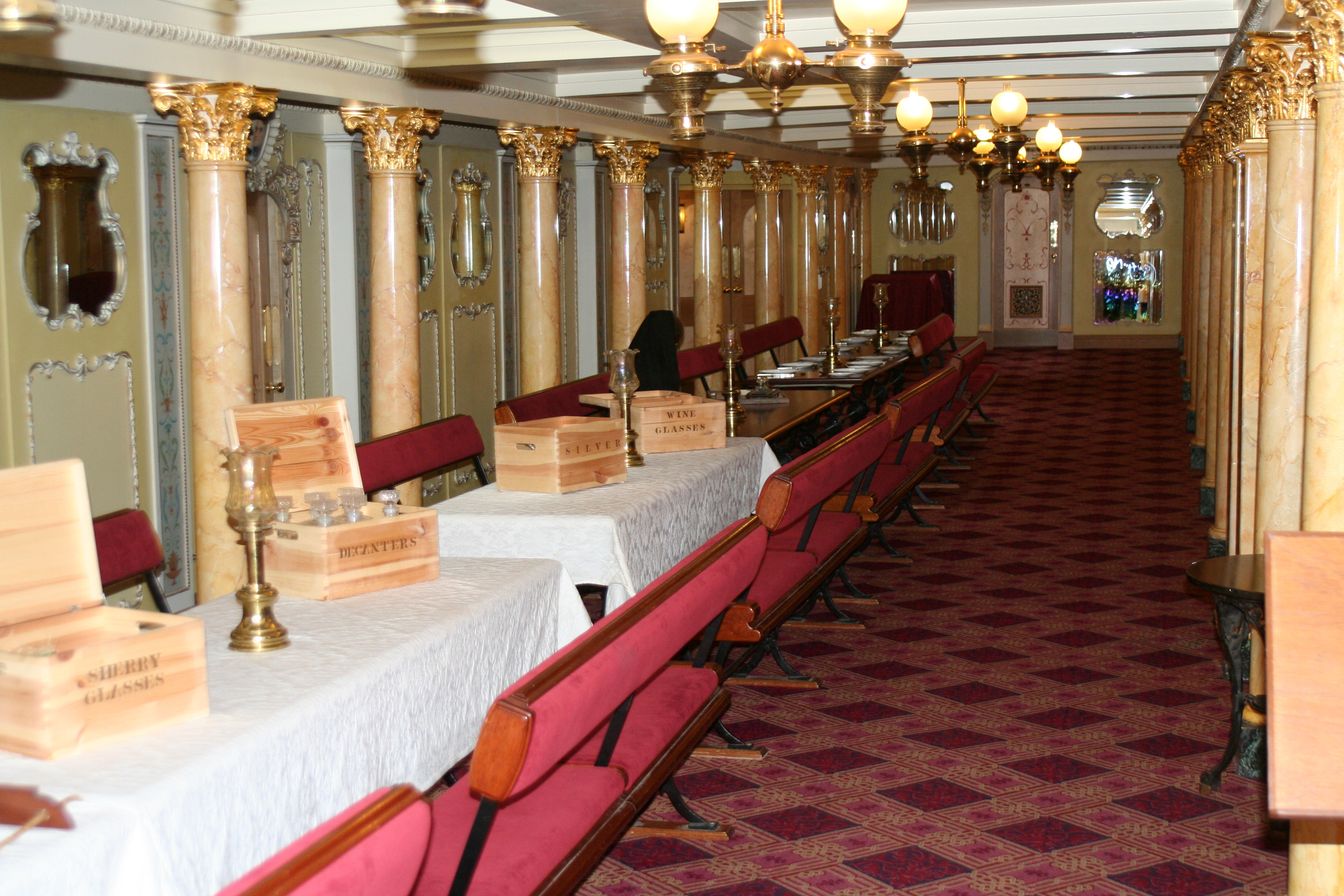 Steamship SS Great Britain, 1st class dining room